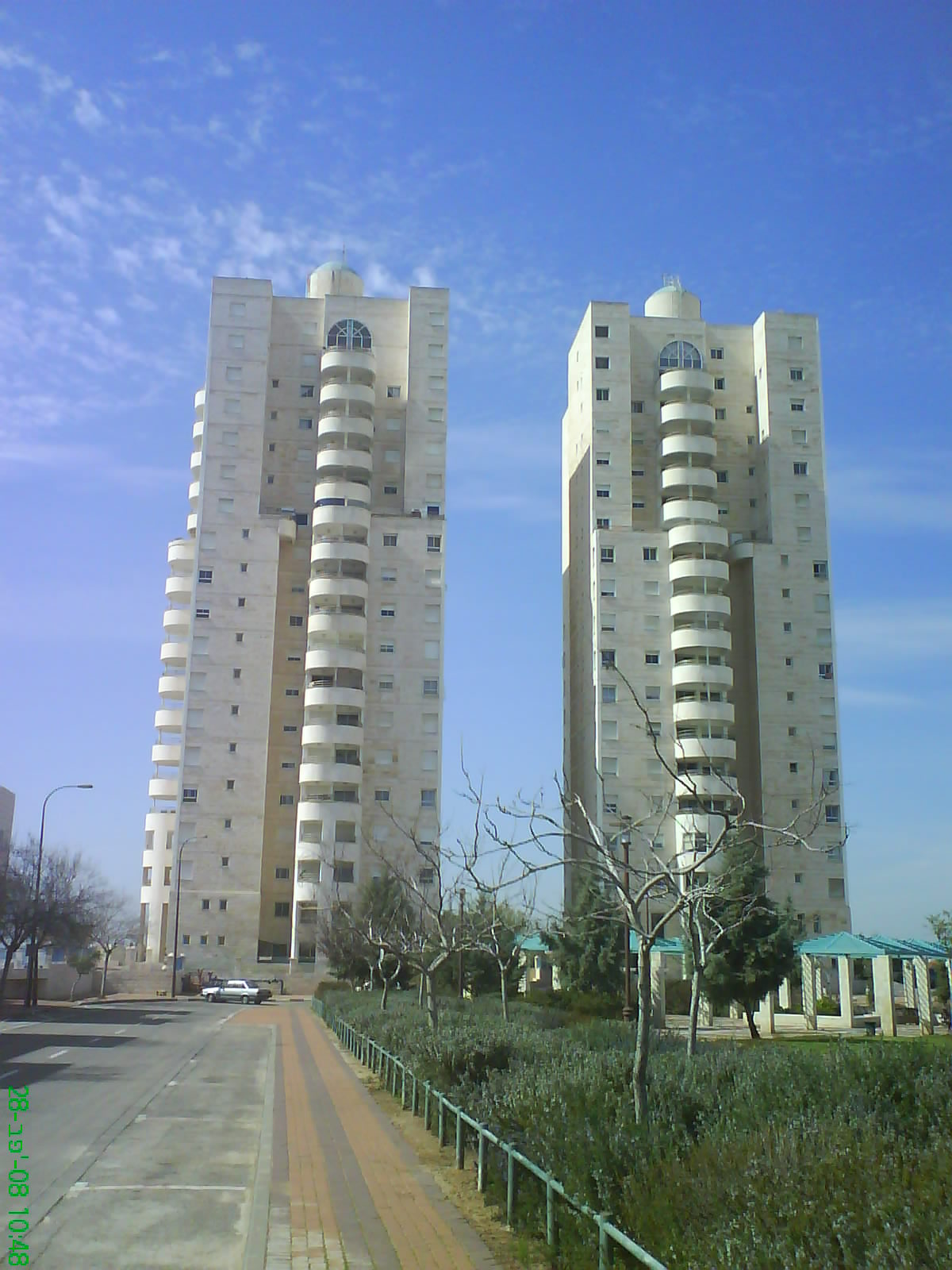 New buildings in Modiin